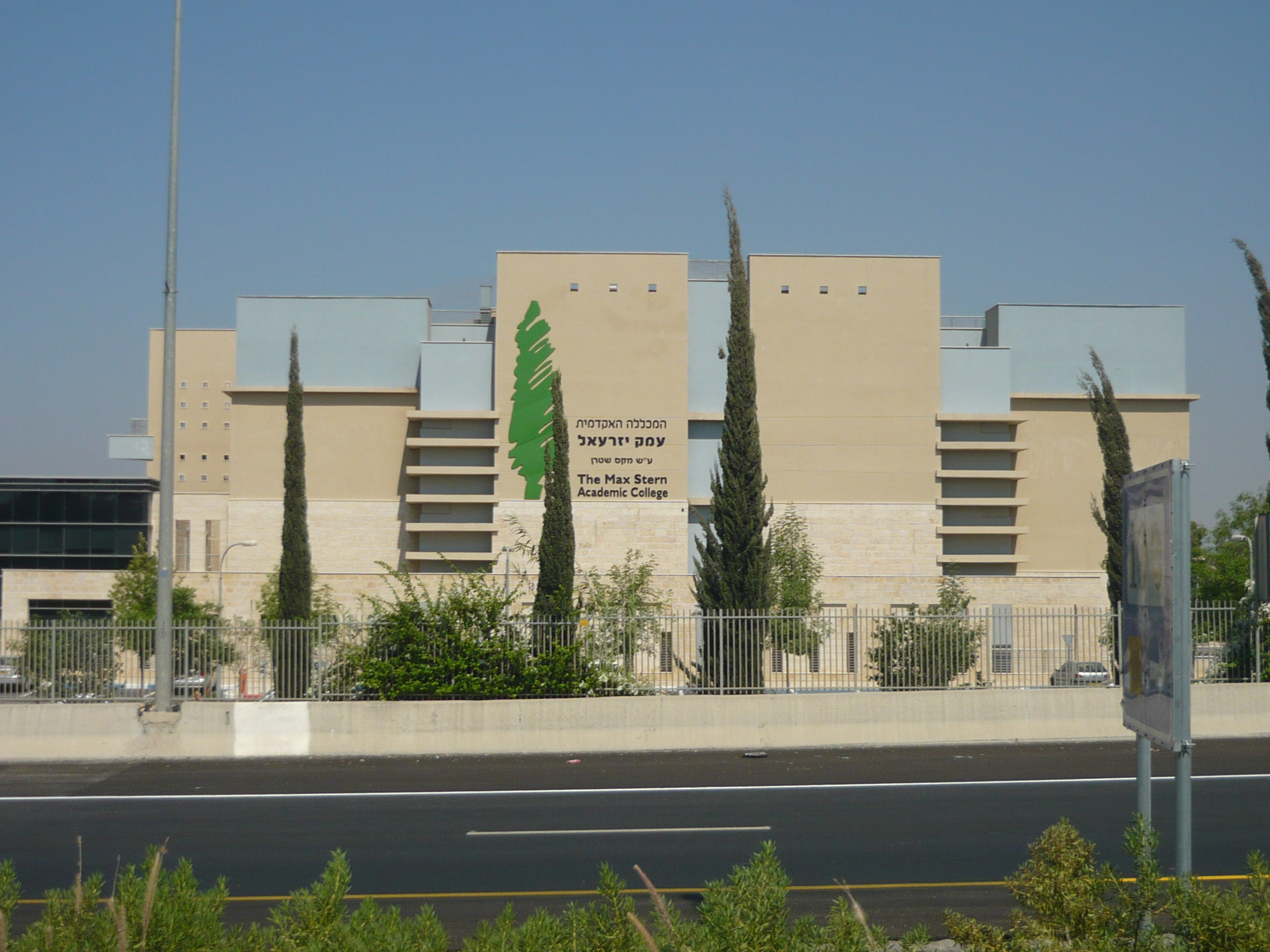 emeq izreel academic college בניין המכללה האקדמית עמק יזרעאל